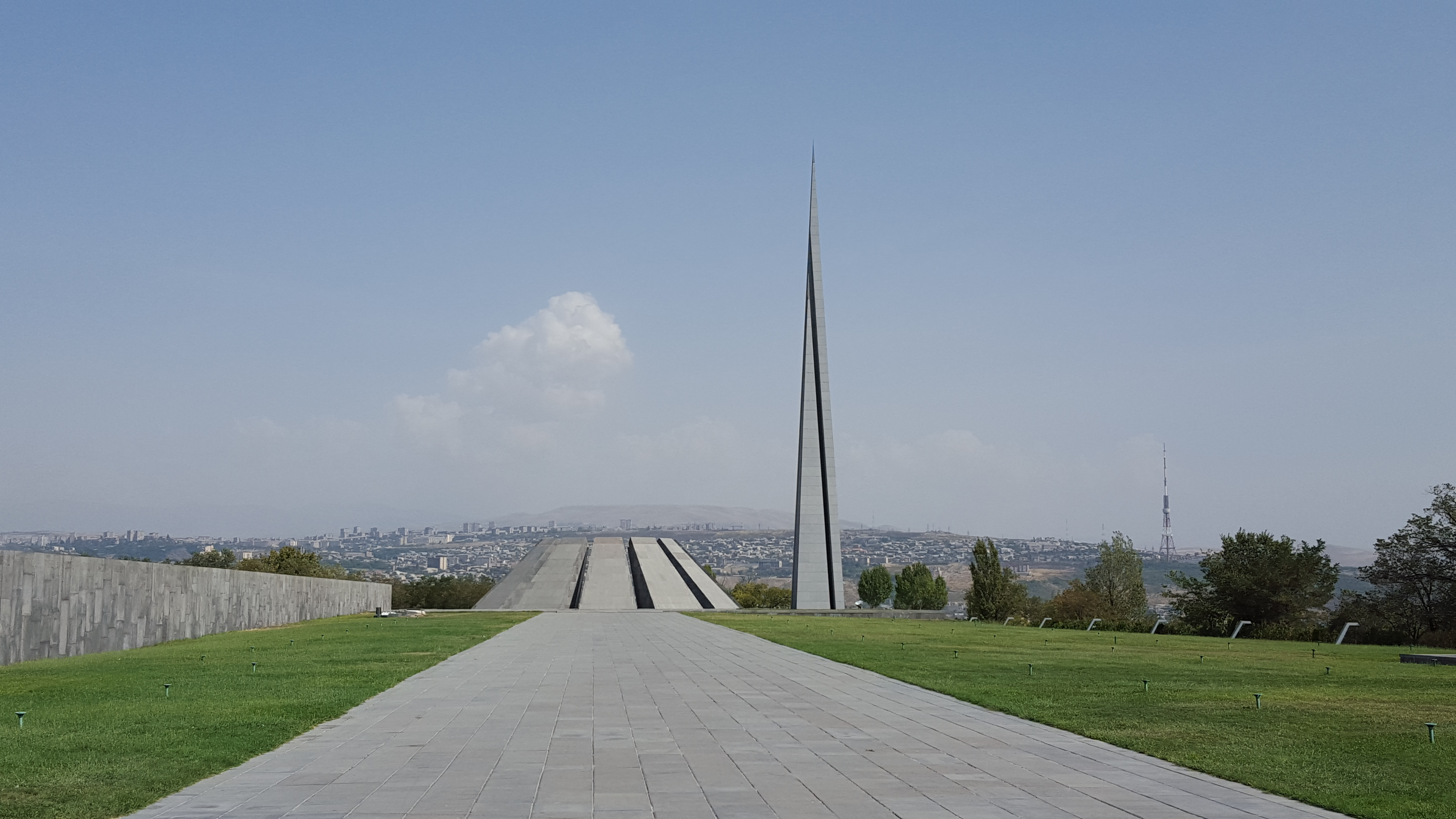 Tsitsernakaberd, the Armenian Genocide memorial in Yerevan